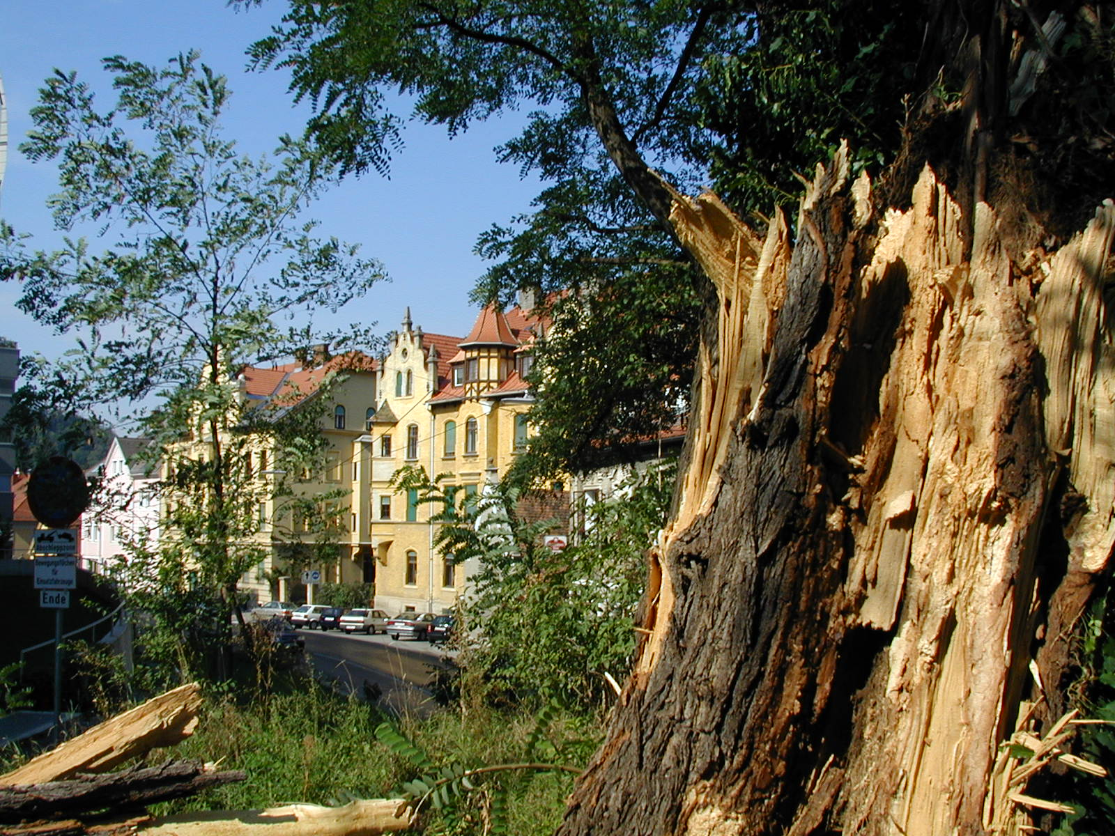 Broken tree (Robinia pseudoacacia) in the Heinrichstraße (Graz) after the storm of 29 Aug 2003. Picture taken and uploaded by Dr. Marcus Gossler.